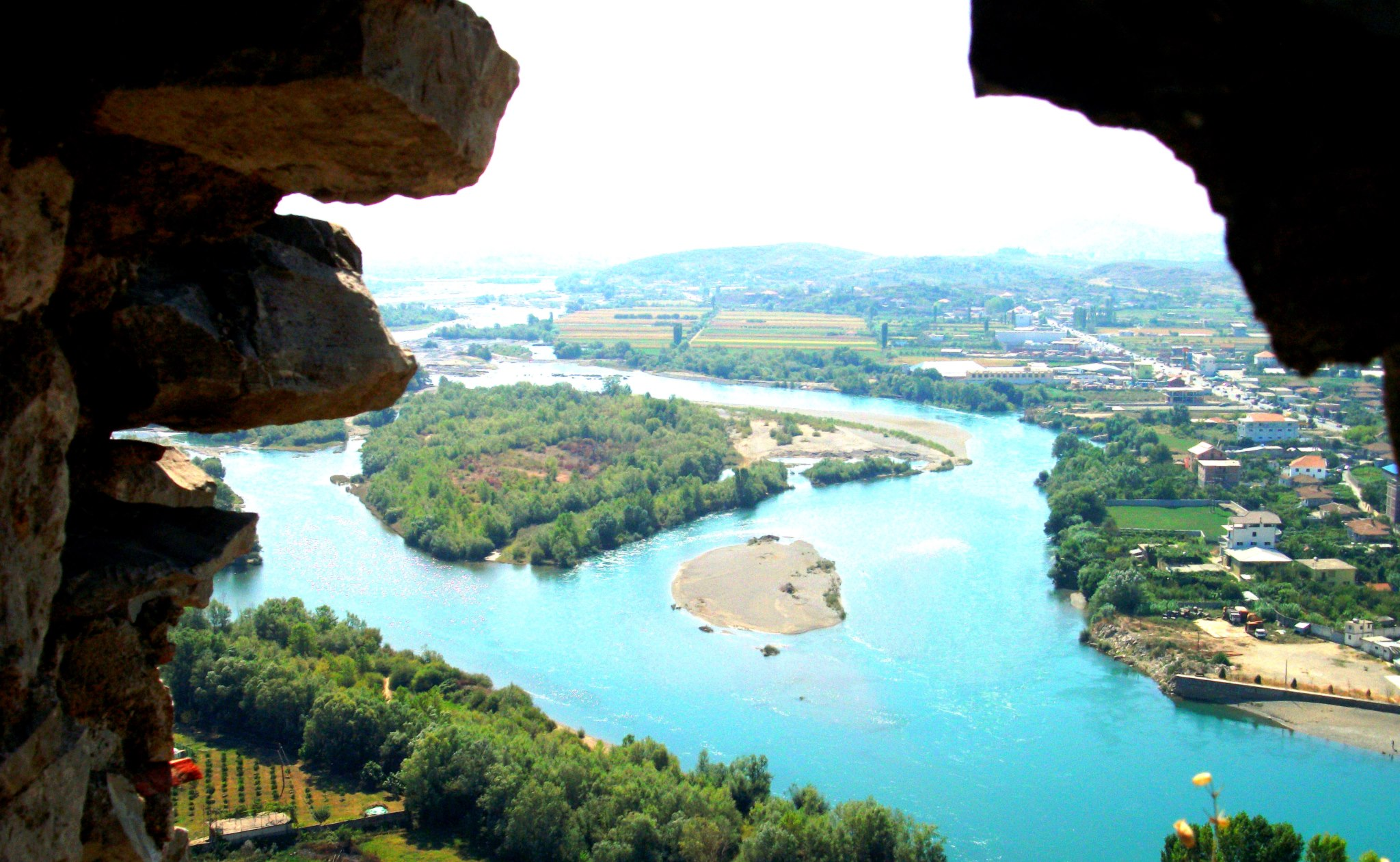 Drini's delta seen from the walls of the second yard of Rozafa's Castle in Shkoder, Albania